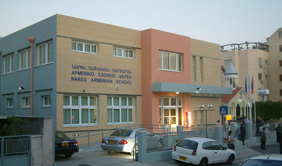 Picture of Nareg Limassol school.